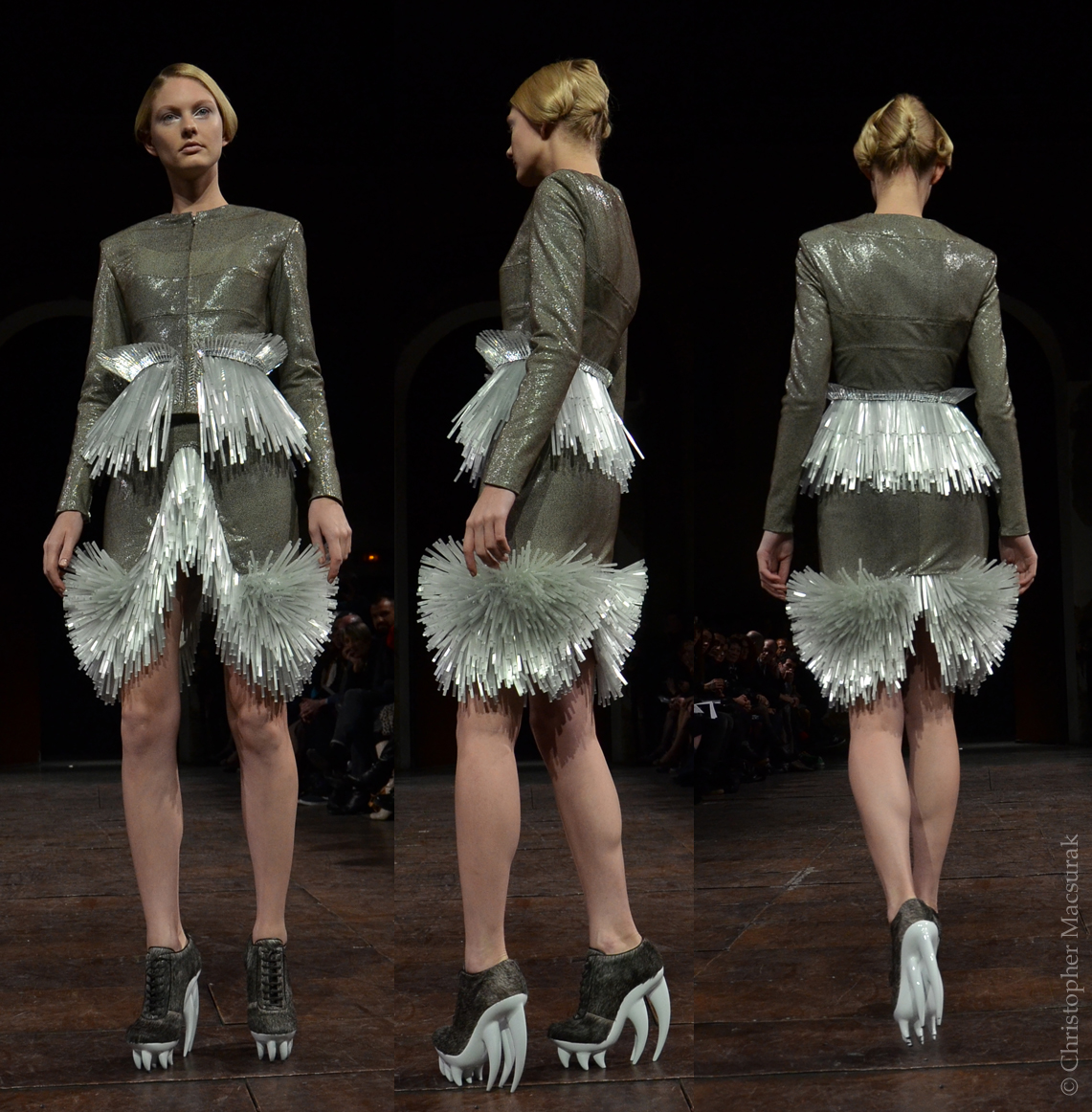 Silver Trip Iris van Herpen - Haute Couture Spring/Summer 2012.